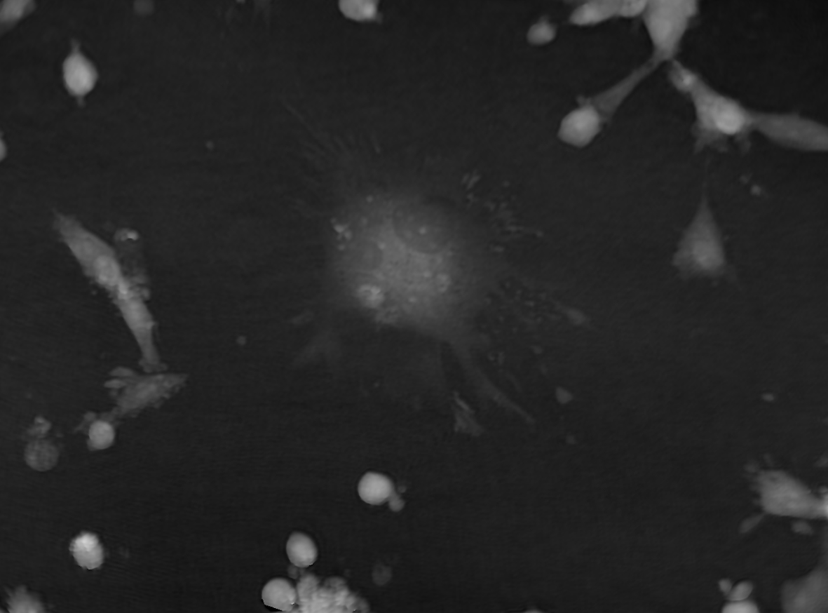 Digital holographic microscopy image (DHM) showing cell details.